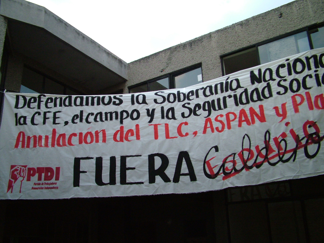 flag to the Independent Party of Democratic Workers